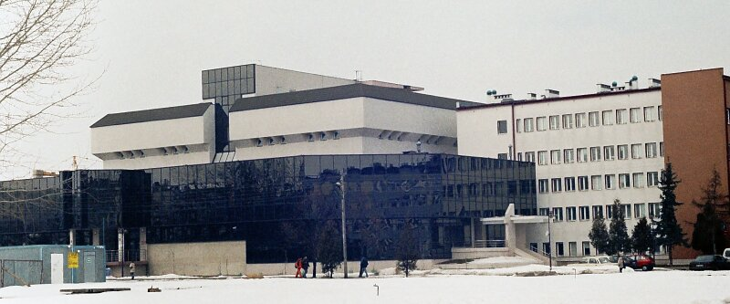 Building of University of Rzeszów Library - on the right Institute of Biology.